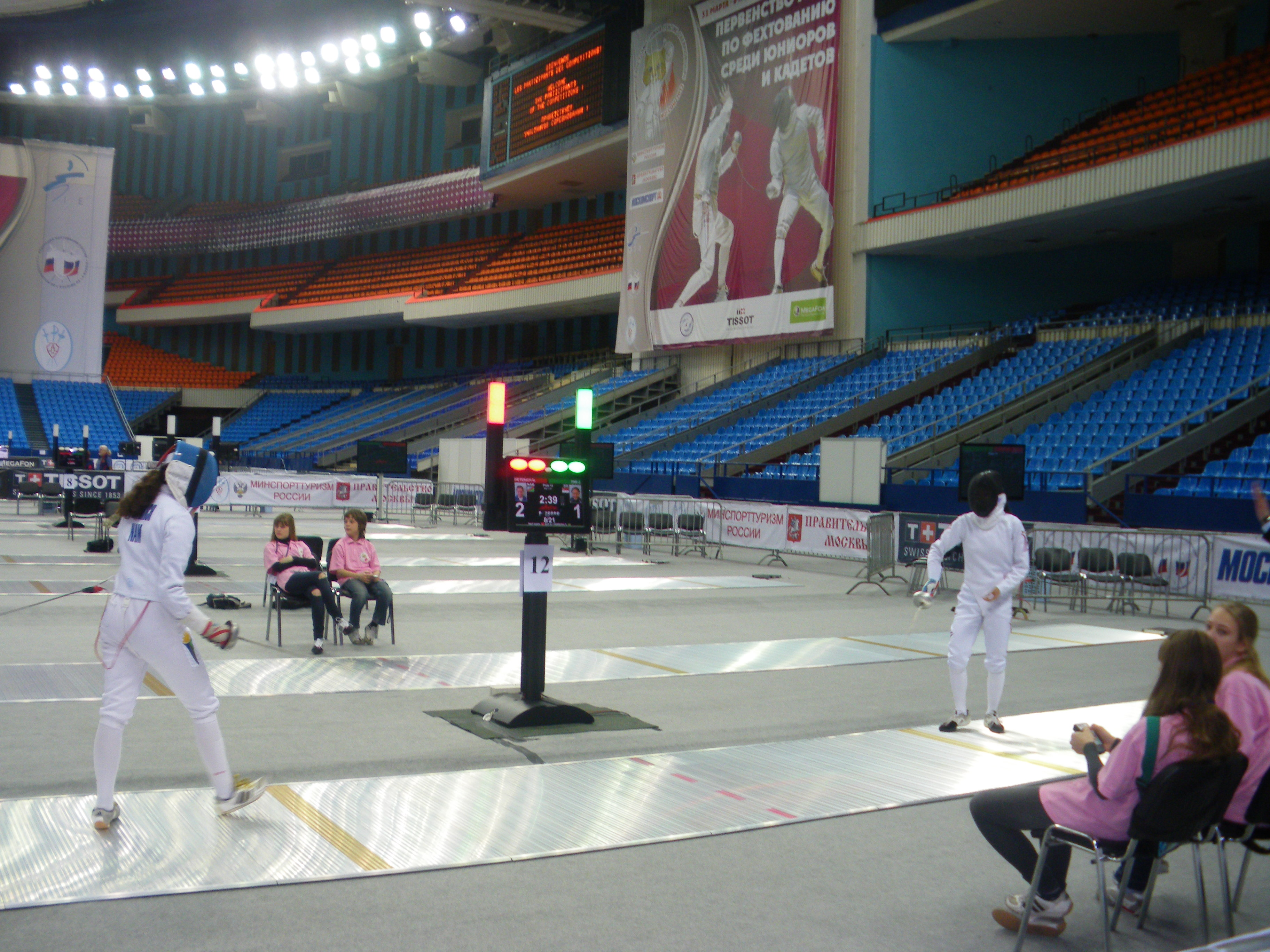 Photo of Natascha Dieterich fencing at the 2012 World Cadets and Juniors Fencing Championships